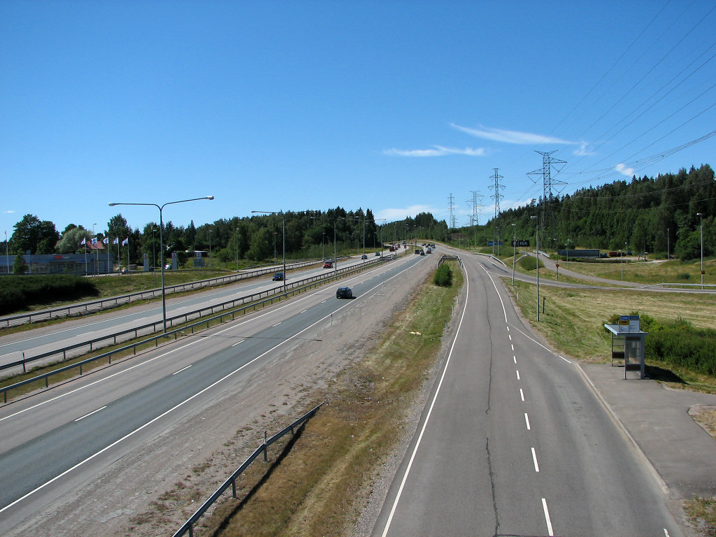 Ring road III (national road 50, E18) at Tuupakka, Vantaa